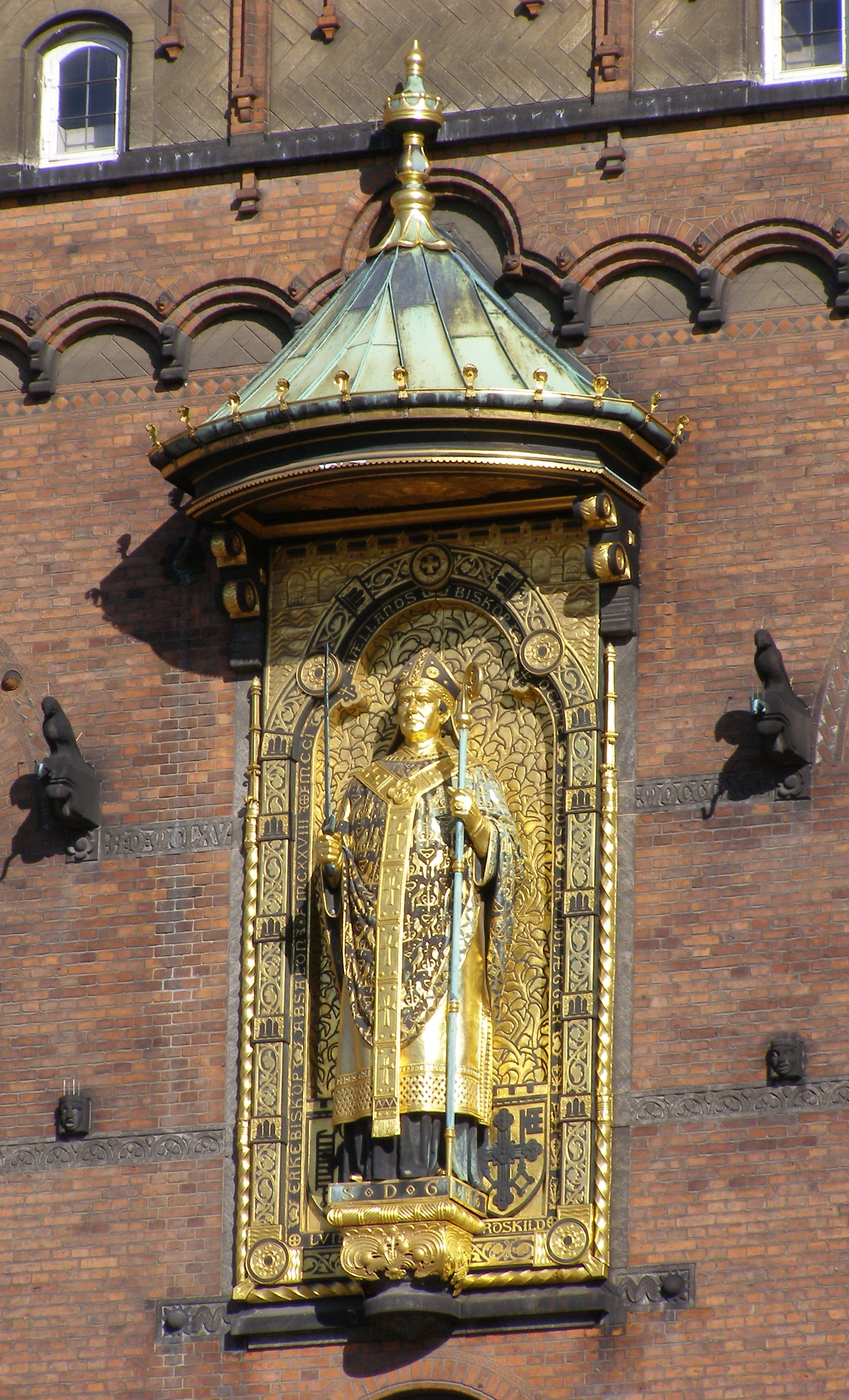 Copenhagen - city hall